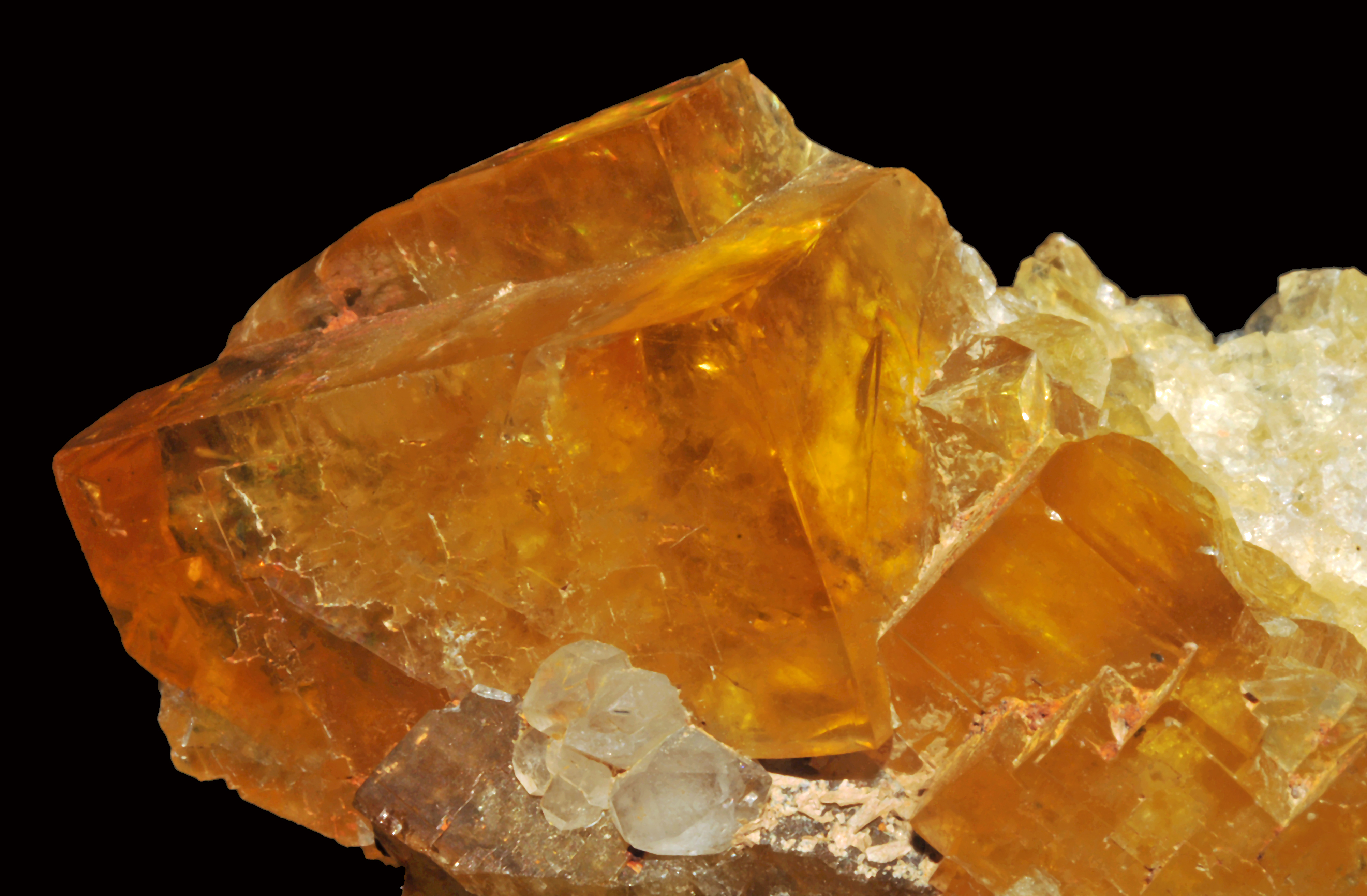 crystals of calcite, crystals of fluorite : Joplin Field, Tri-State District, Jasper Co., Missouri, USA